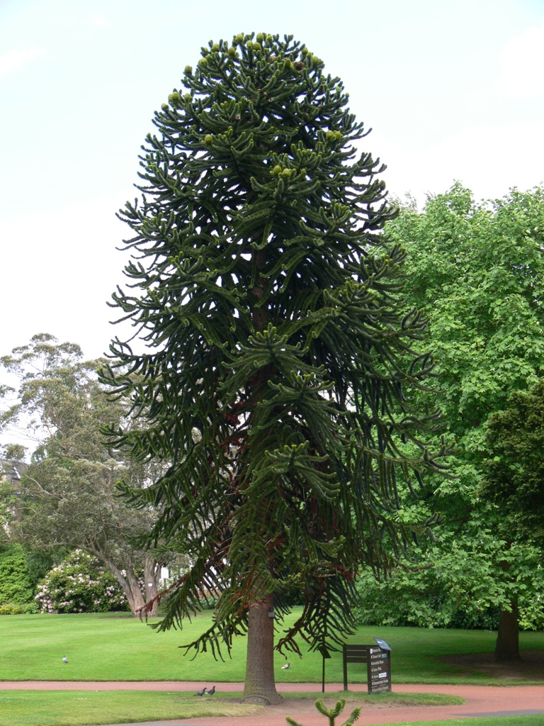 Araucaria araucana the Monkey-puzzle tree, at Royal Botanical Gardens, Edinburgh